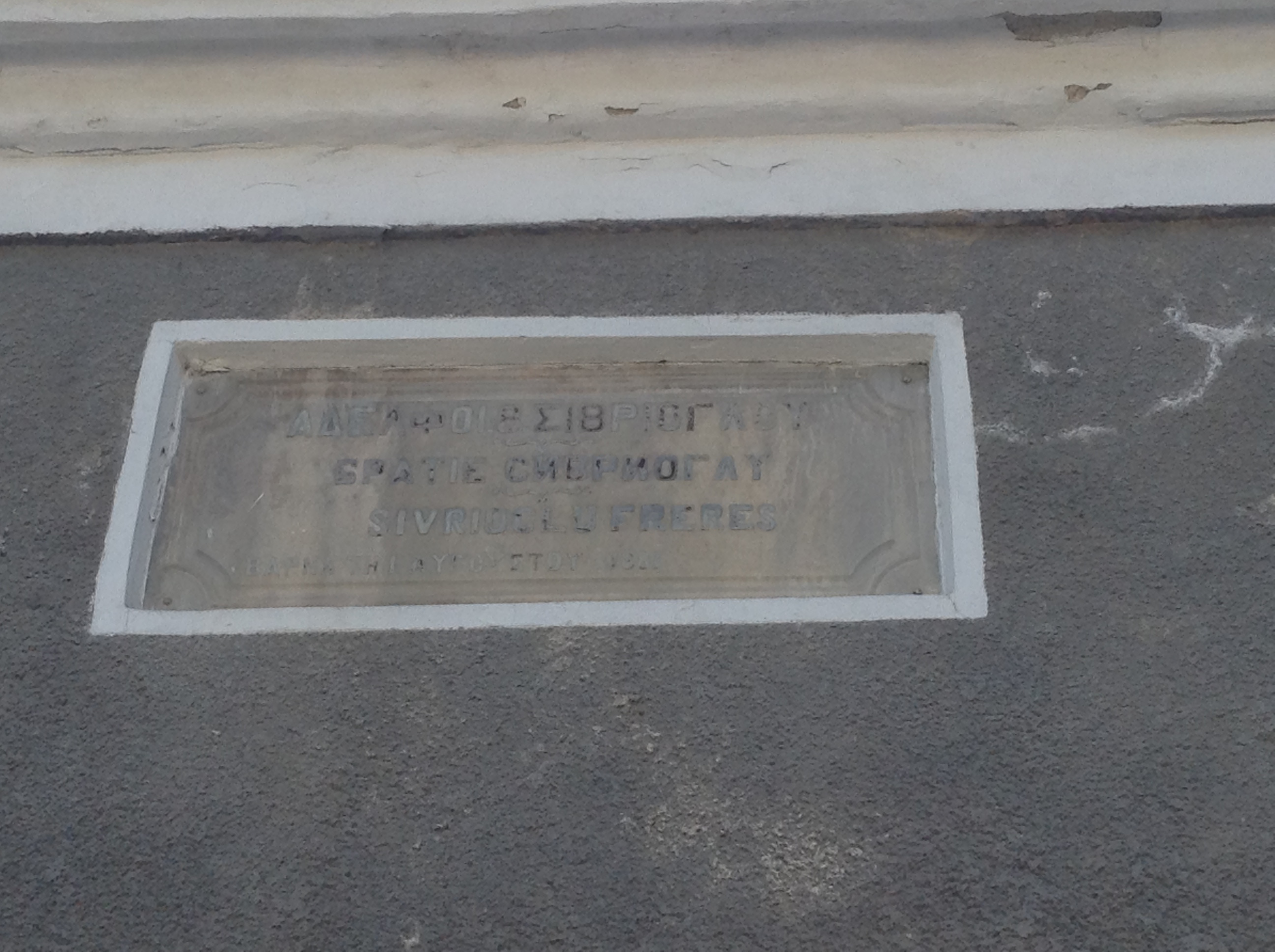 An inscription of the Sivrioglu merchant brothers at the late XIX cent commercial building in Varna.